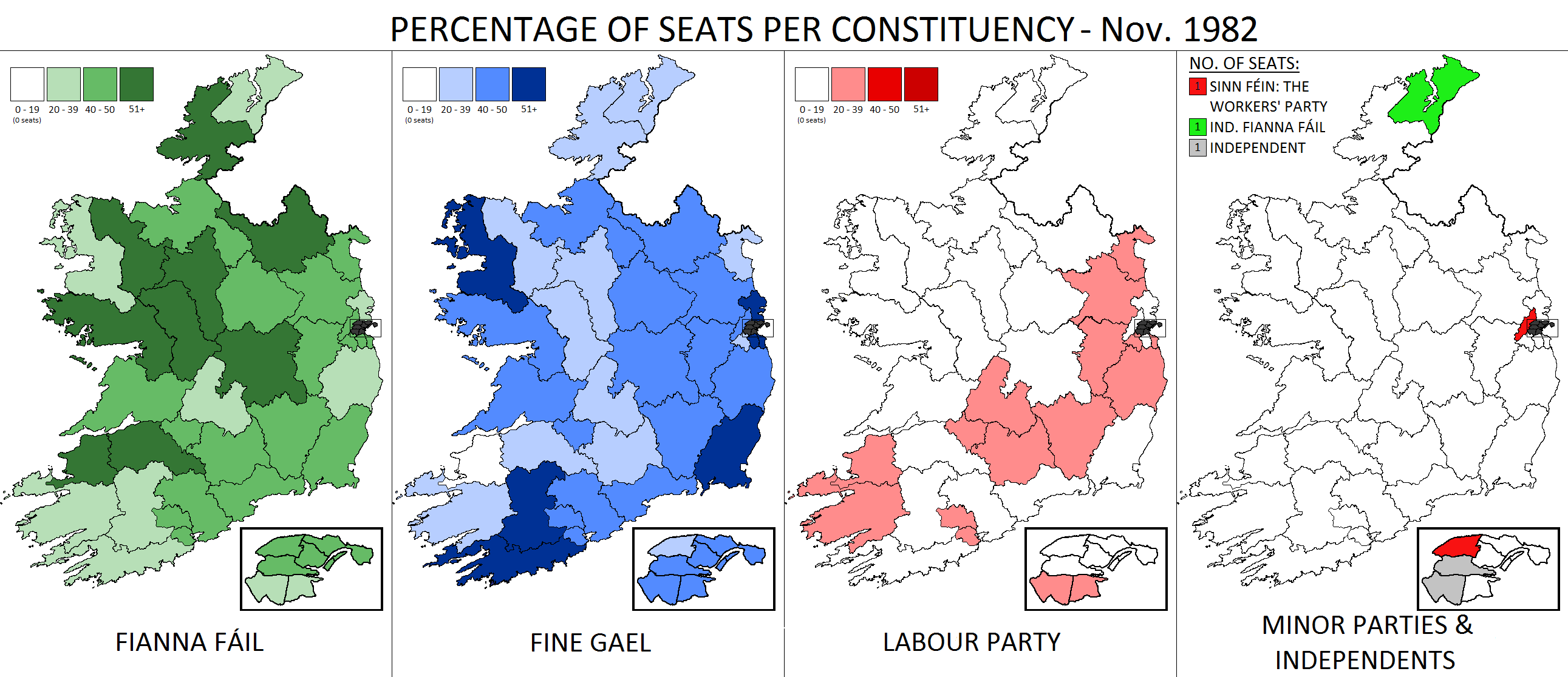 Graphical representation of the 2007 Irish general election results. Created by myself using data from Wikipedia and literary sources.